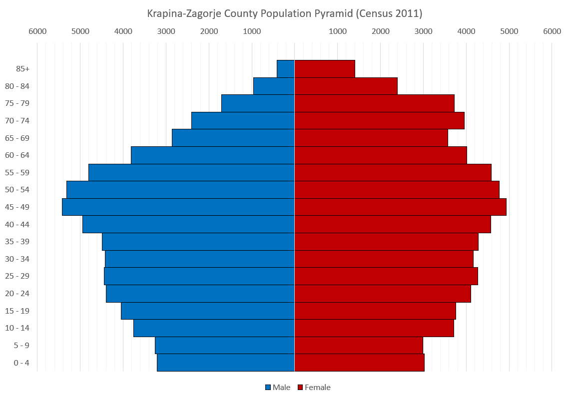 Population pyramid of Krapina-Zagorje County. Version in English. Data from 2011 Census; available at